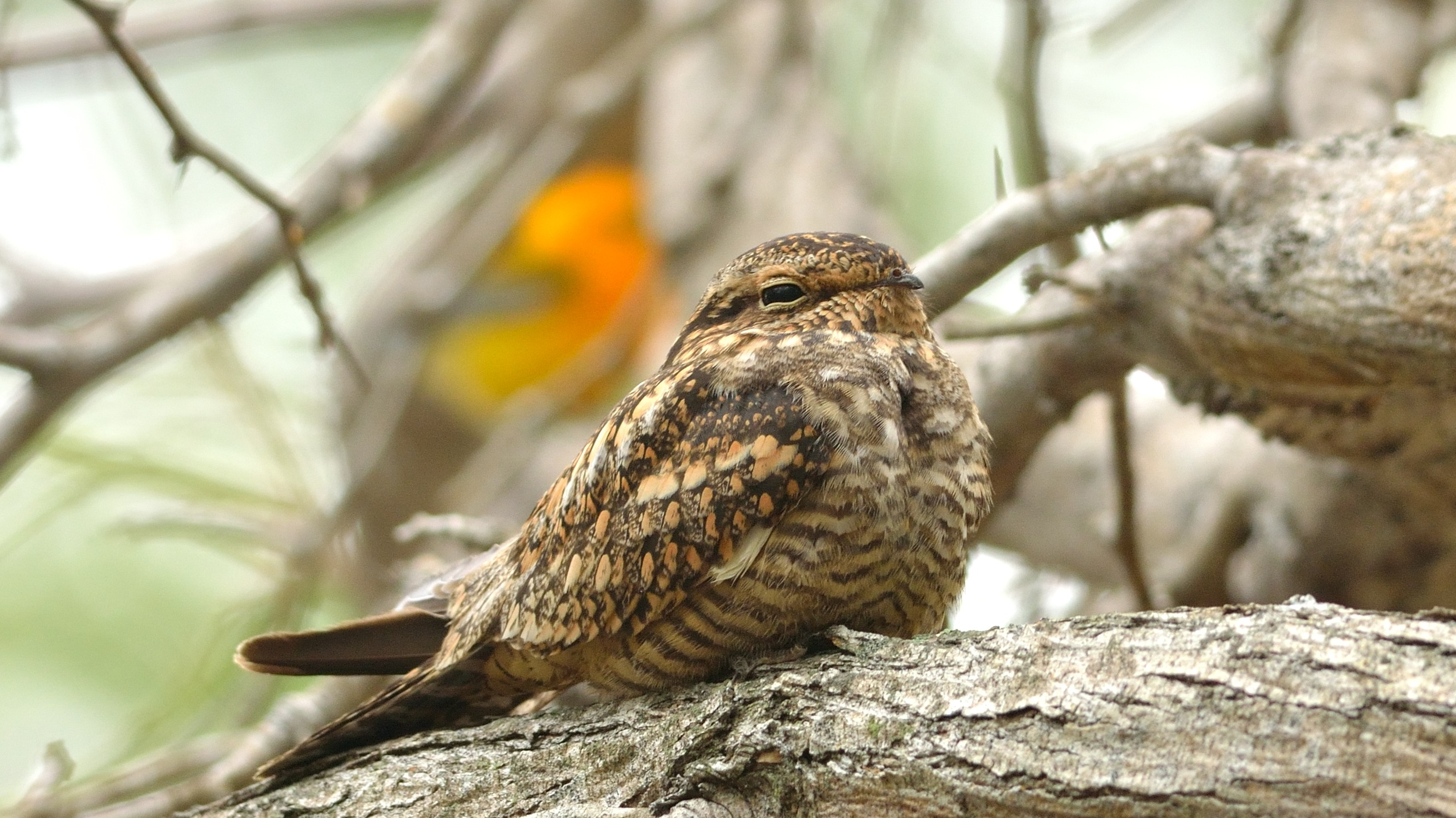 Chordeiles acutipennis - Lesser Nighthawk